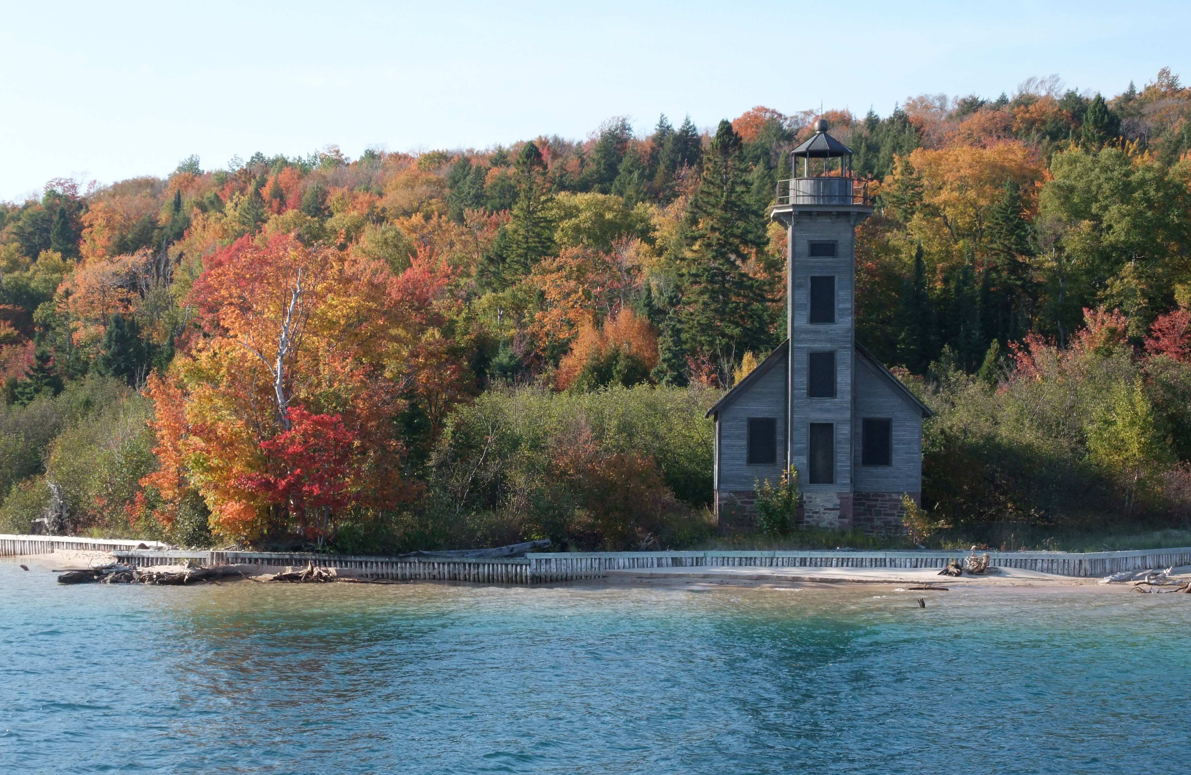 Old lighthouse on Lake Superior's Grand Island near Munising, MI. Credit: NOAA.